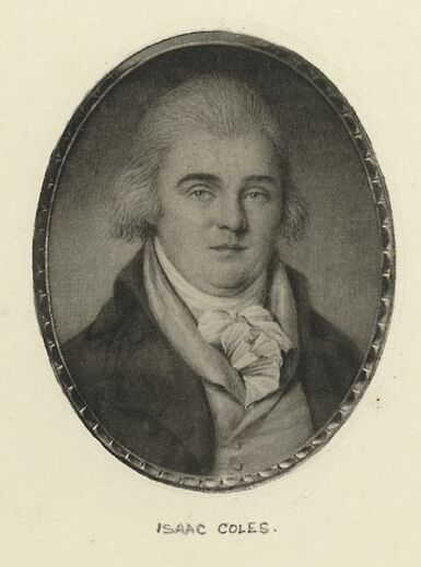 Isaac Coles, US Representative from Virginia, died in 1813